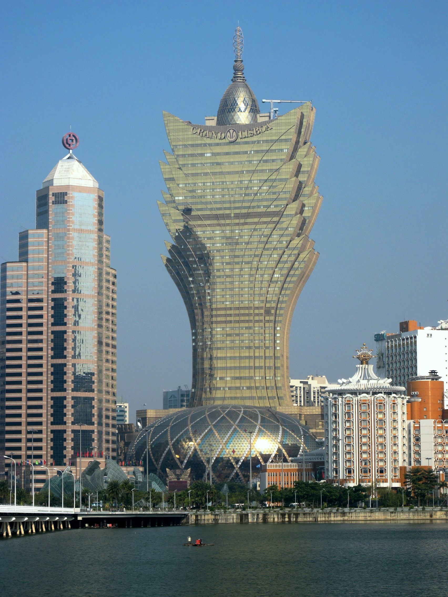 Grand Lisboa Macau